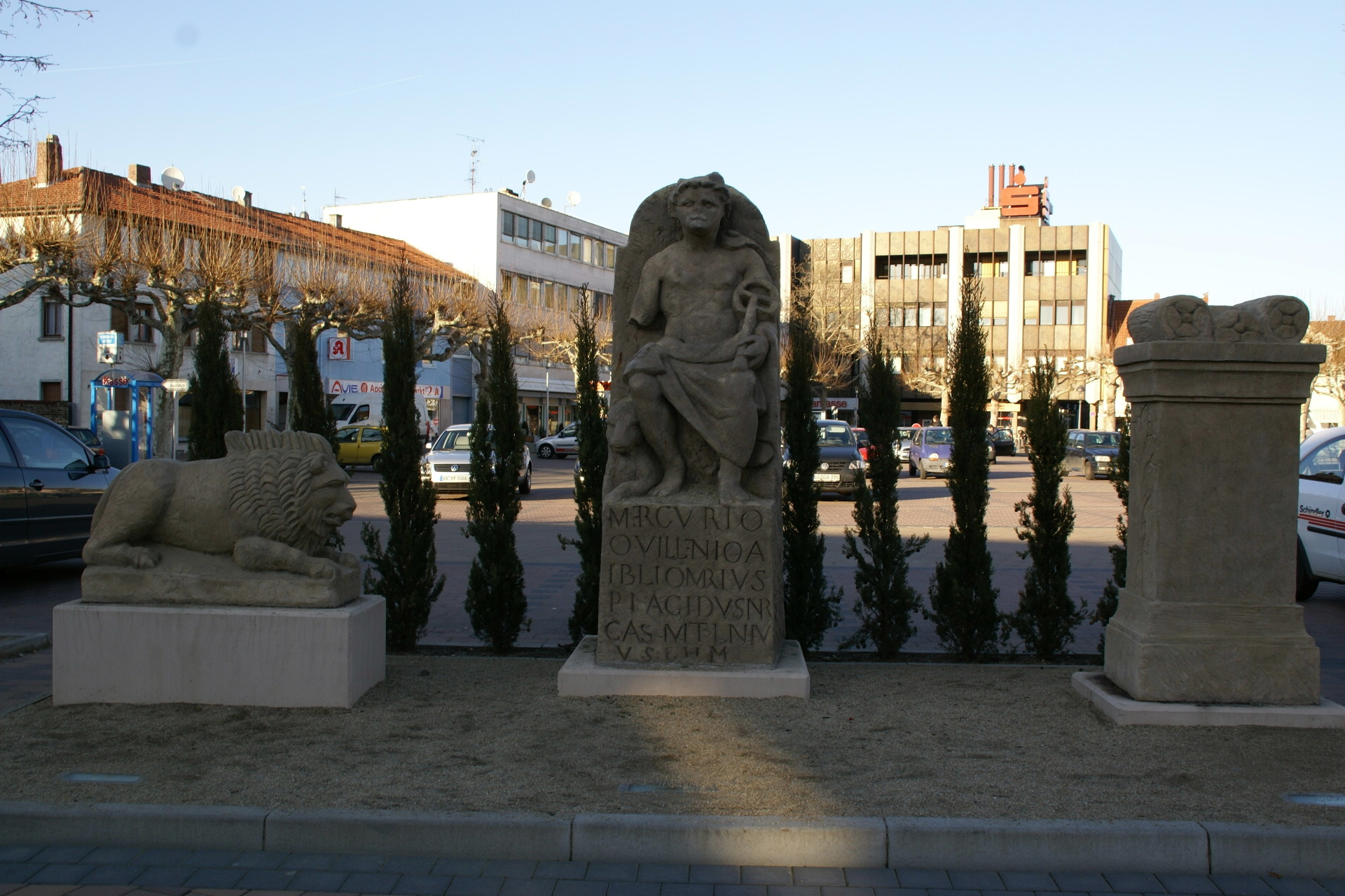 At the market place in Groß-Gerau, Germany